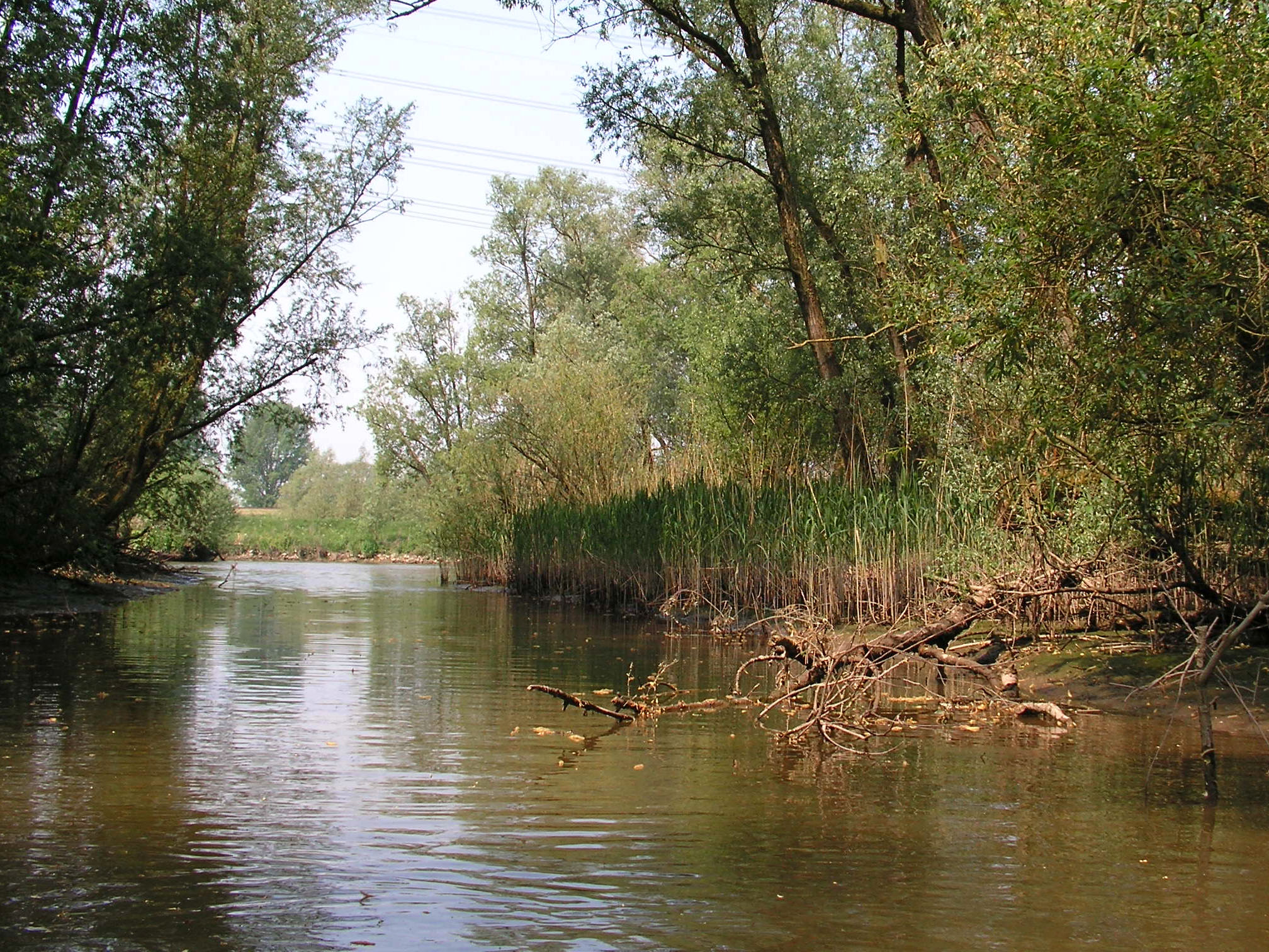 Typical view of the internal parts of the Hollandsche Biesbosch (national park), near Dordrecht, the Netherlands.